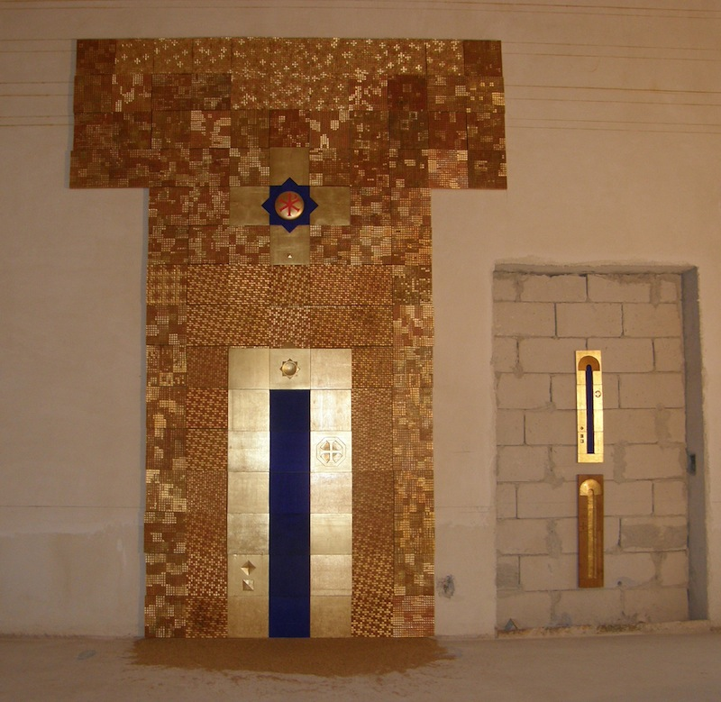 Expoziție (Silviu Oravitzan)